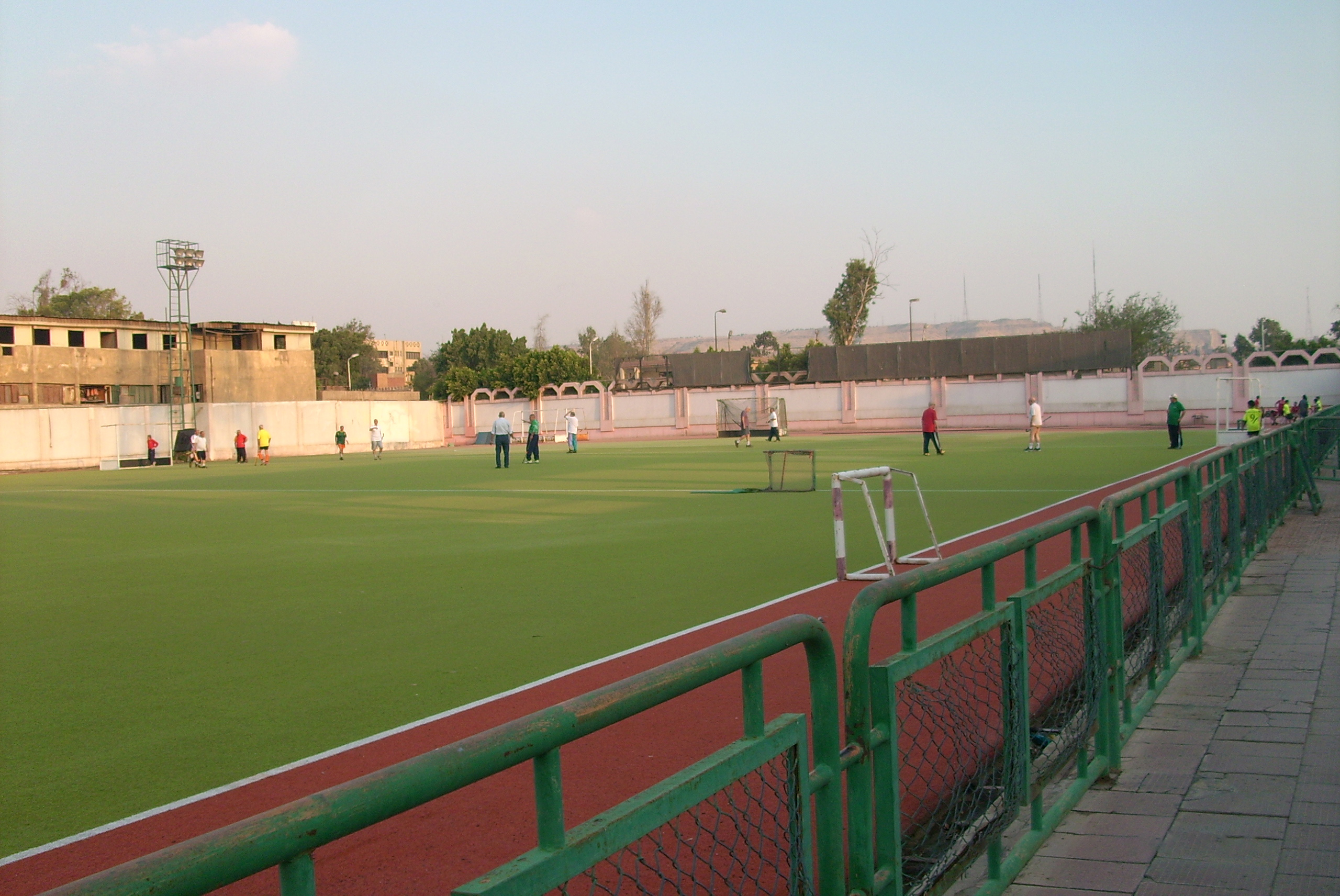 Egyptian Hokey veterans association in field